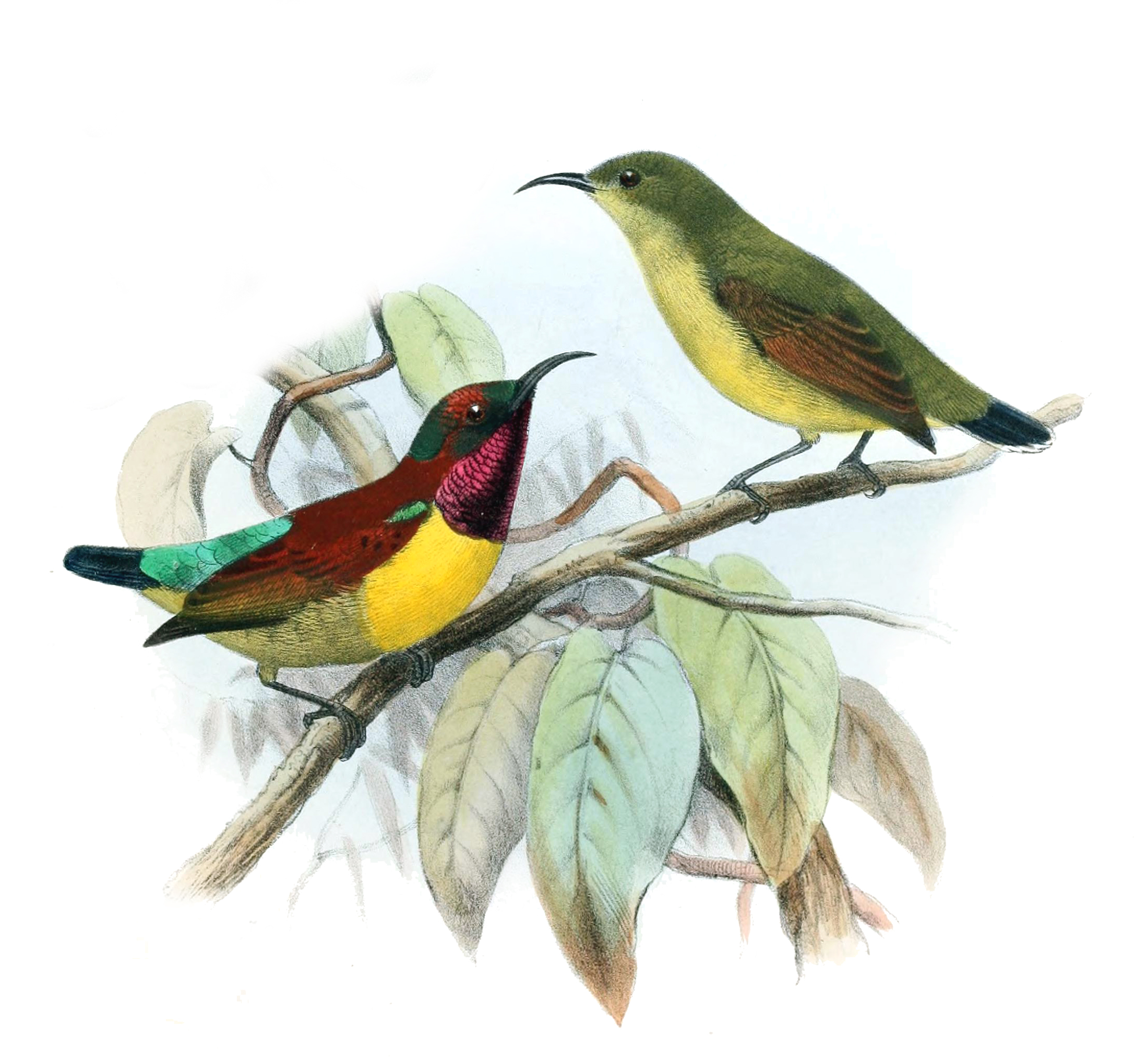 « Nectarophila juliae » = Leptocoma sperata juliae (Subspecies of Purple-throated Sunbird)